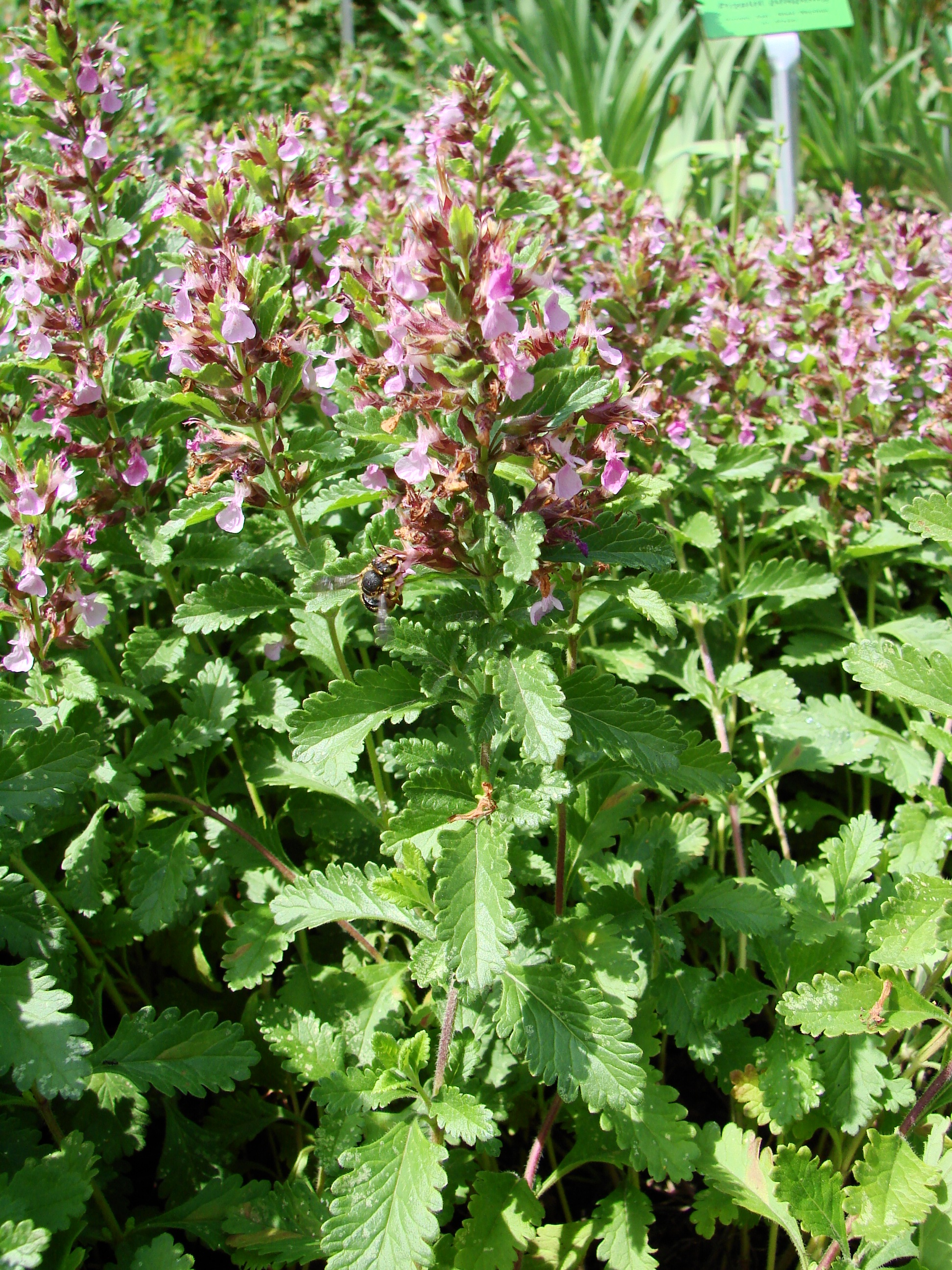 Picture taken in the university botanical garden of Wrocław (Poland): Teucrium chamaedrys L.